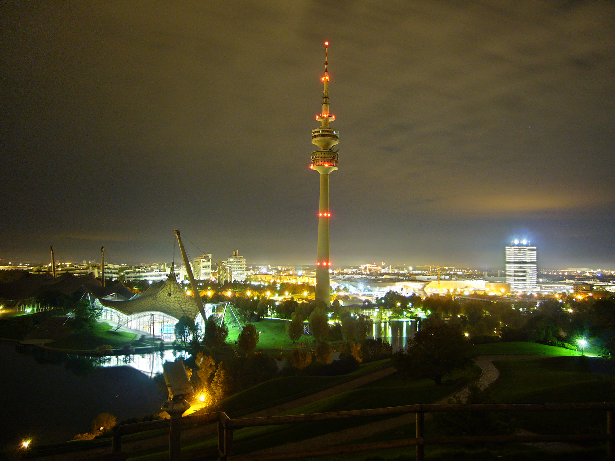 Olympic tower and BMW-Tower at night, Munich